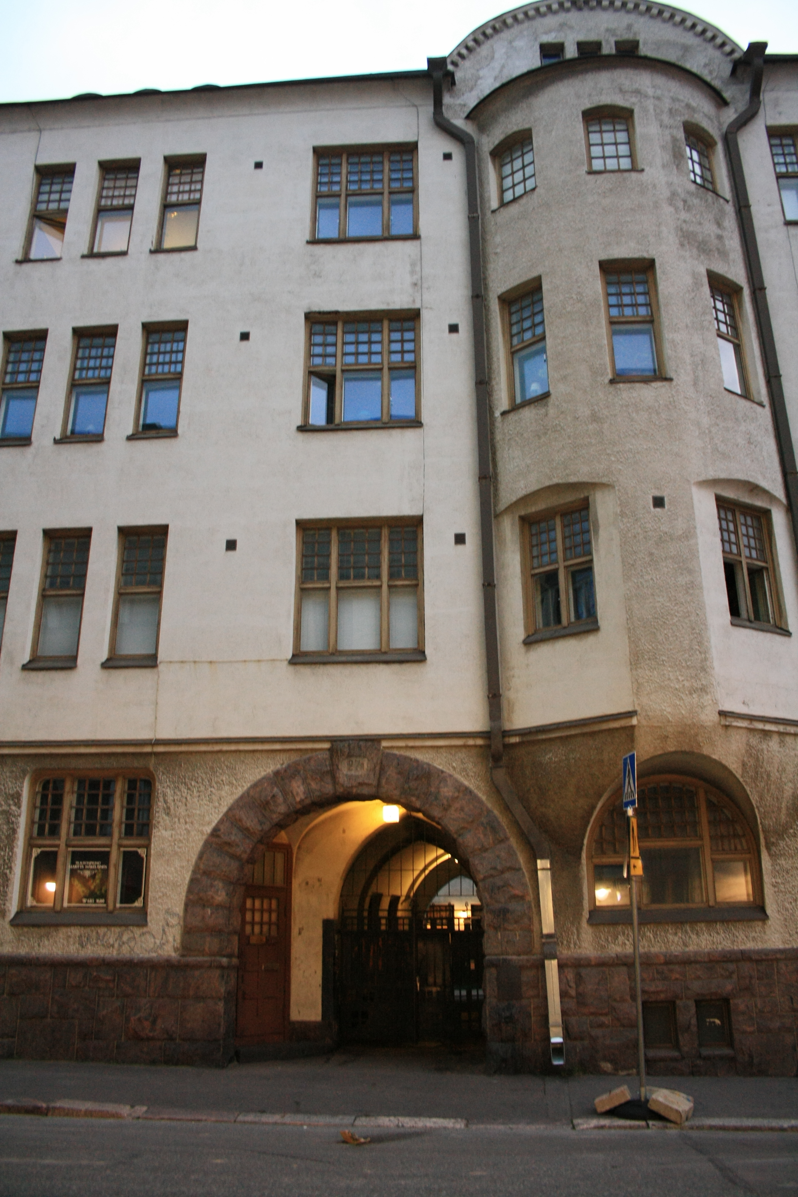 Building on Kriittinen korkeakoulu (Critical Adademy) in Helsinki